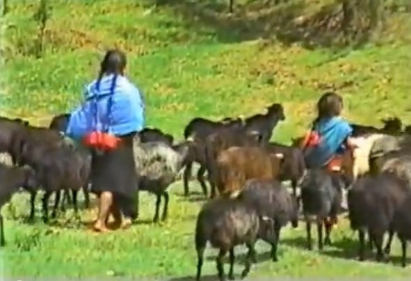 Sheep Chiapas.